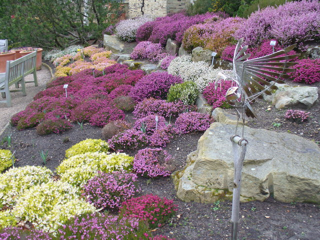 Winter Heathers Colourful display at Harlow Carr, the RHS garden designed to show off plants in a northern English environment. Modern sculptures, like this bird on a spade, are dotted about the garden.